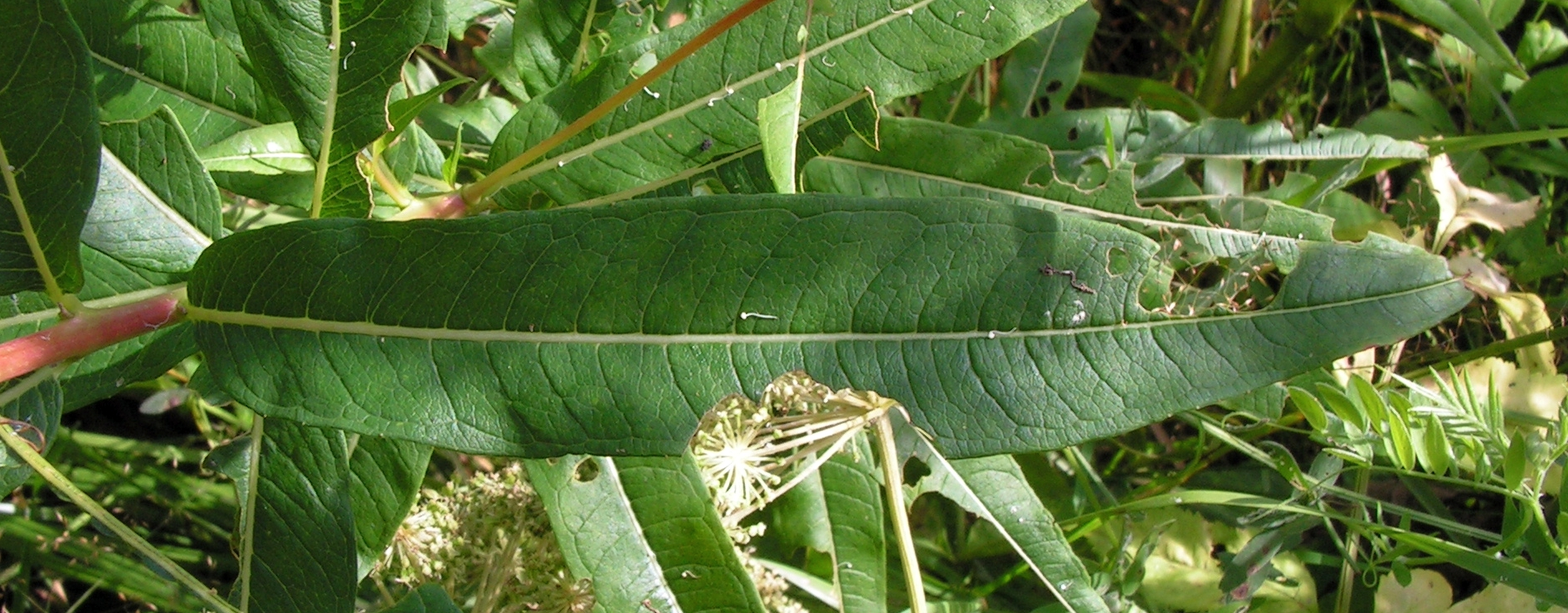 Chamerion_angustifolium, the leaf. Moscow region, Russia.